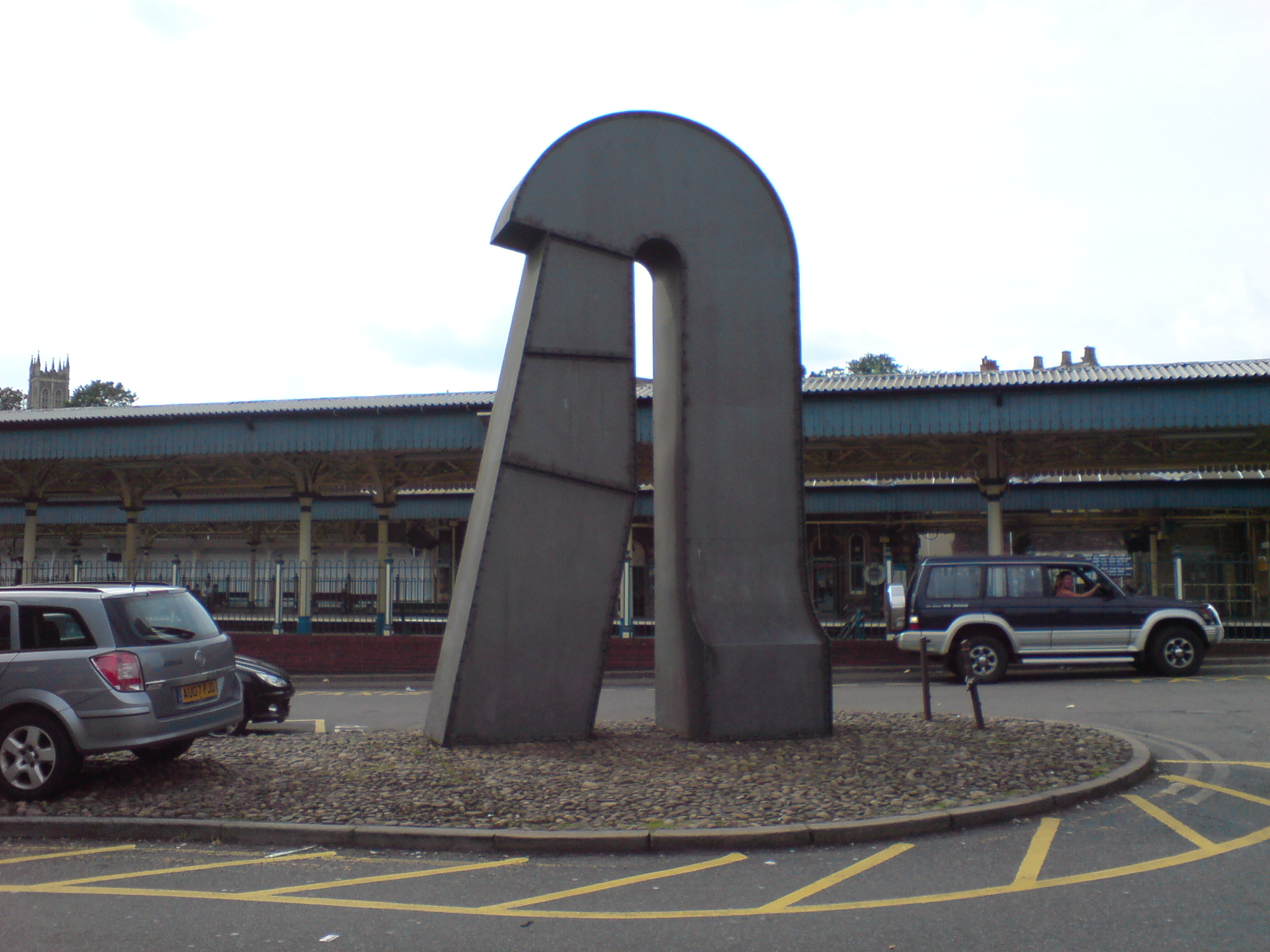 Sculpture outside Newport High Street railway station, South Wales, United Kingdom. Taken on 01 August 2007.